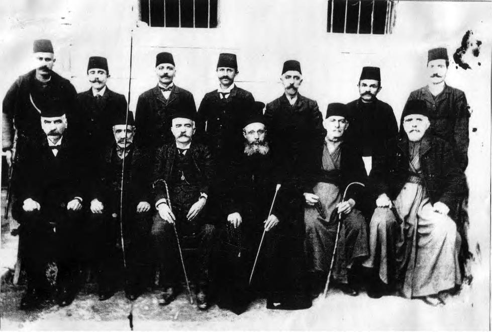 Sitting from left to right: Pit Petraşincu, Gh. Baţa, Nicolae Petraşincu, Popa Sotir, Petru Baliu, Nachi Ţiriviri. Standing from left to right: Cavasul, Costică Telescu, Teohareanul, Cola Boiagi, Costu Berber, Nache Costardiniţa.